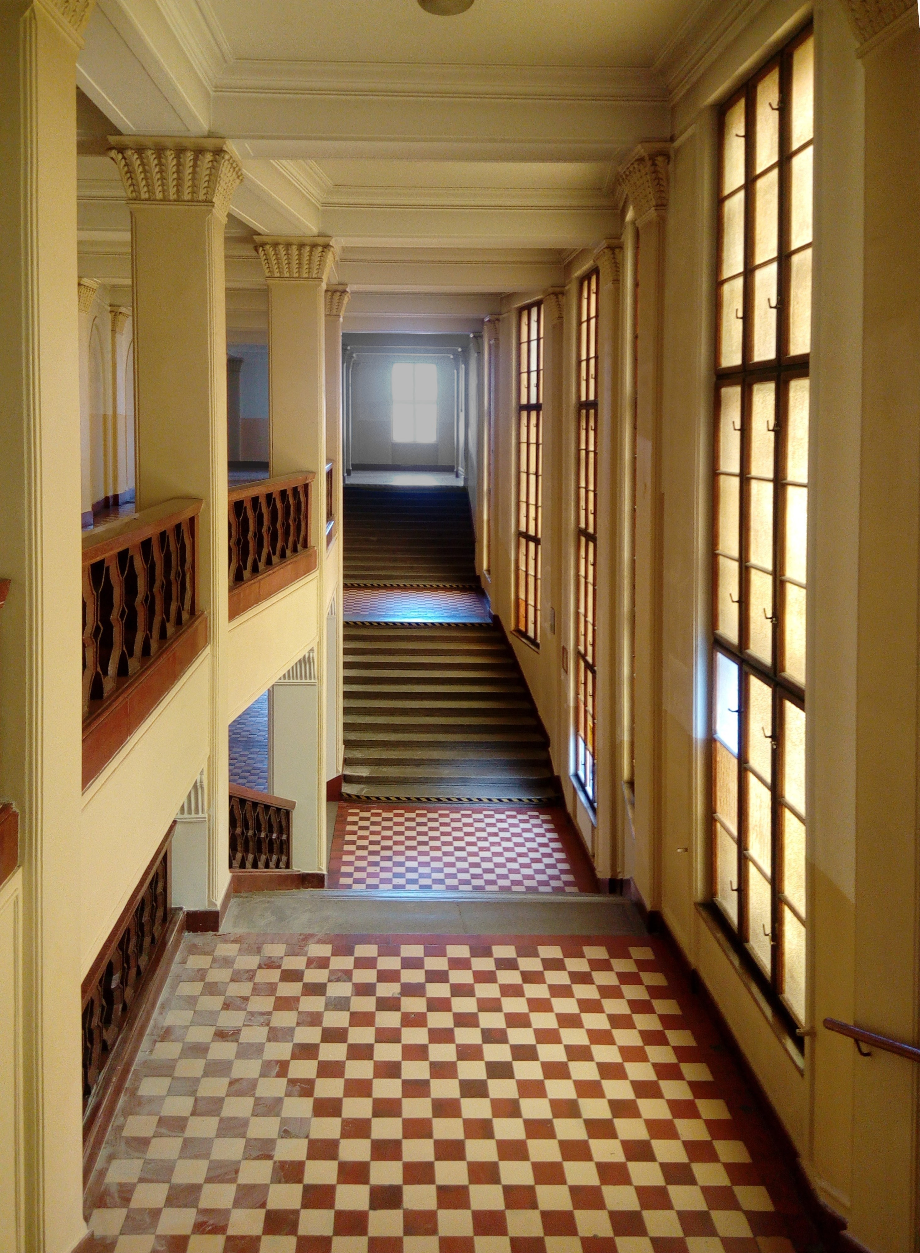 Copernicus Lyceum in Bielsko-Biała – the main staircase